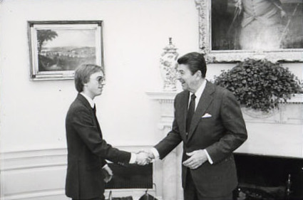 President Ronald Reagan, Tom Hagedorn, and Jim Hagedorn (3-10) Meeting with Tom Hagedorn and Jim Hagedorn President Ronald Reagan, Steven Symms, Fran Symms, David Williams, Diane Williams, and Sarah Leist, (Not in all Photos) (11-25) Meeting to discuss scleroderma, a disease which causes hardening of the skin with Steven Symms